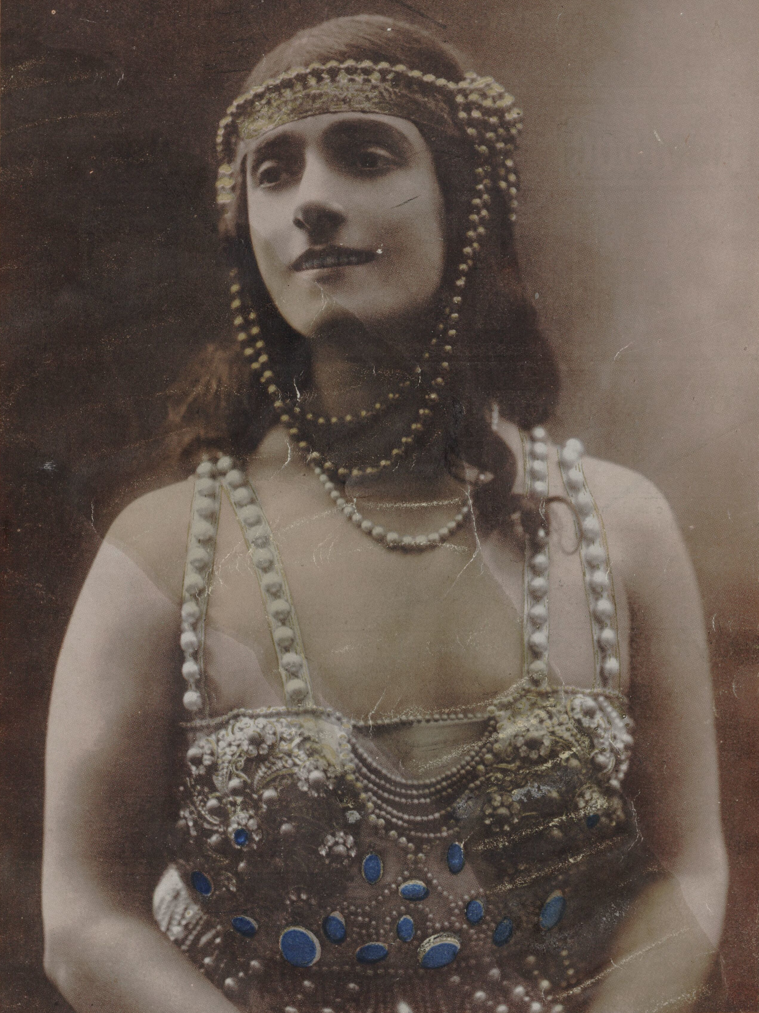 French soprano Marthe Davelli (18??-19??) as Princess Saamcheddine in Mârouf, savetier du Caire by Henri Rabaud (1873-1949) at the Opéra-Comique in Paris in 1914.